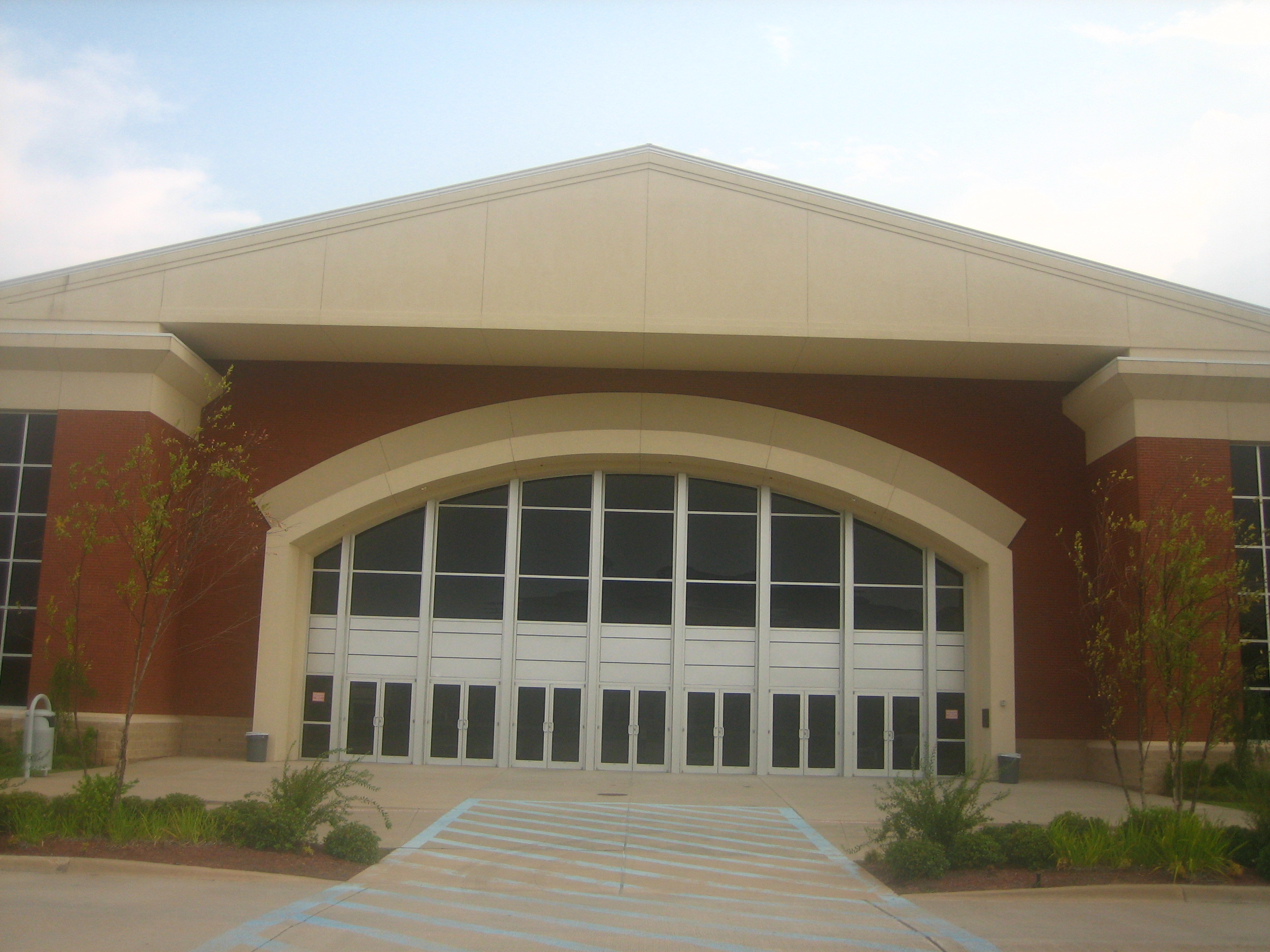 I took photo on Aug. 3, 2008.Billy Hathorn (talk) 05:30, 13 August 2008 (UTC)